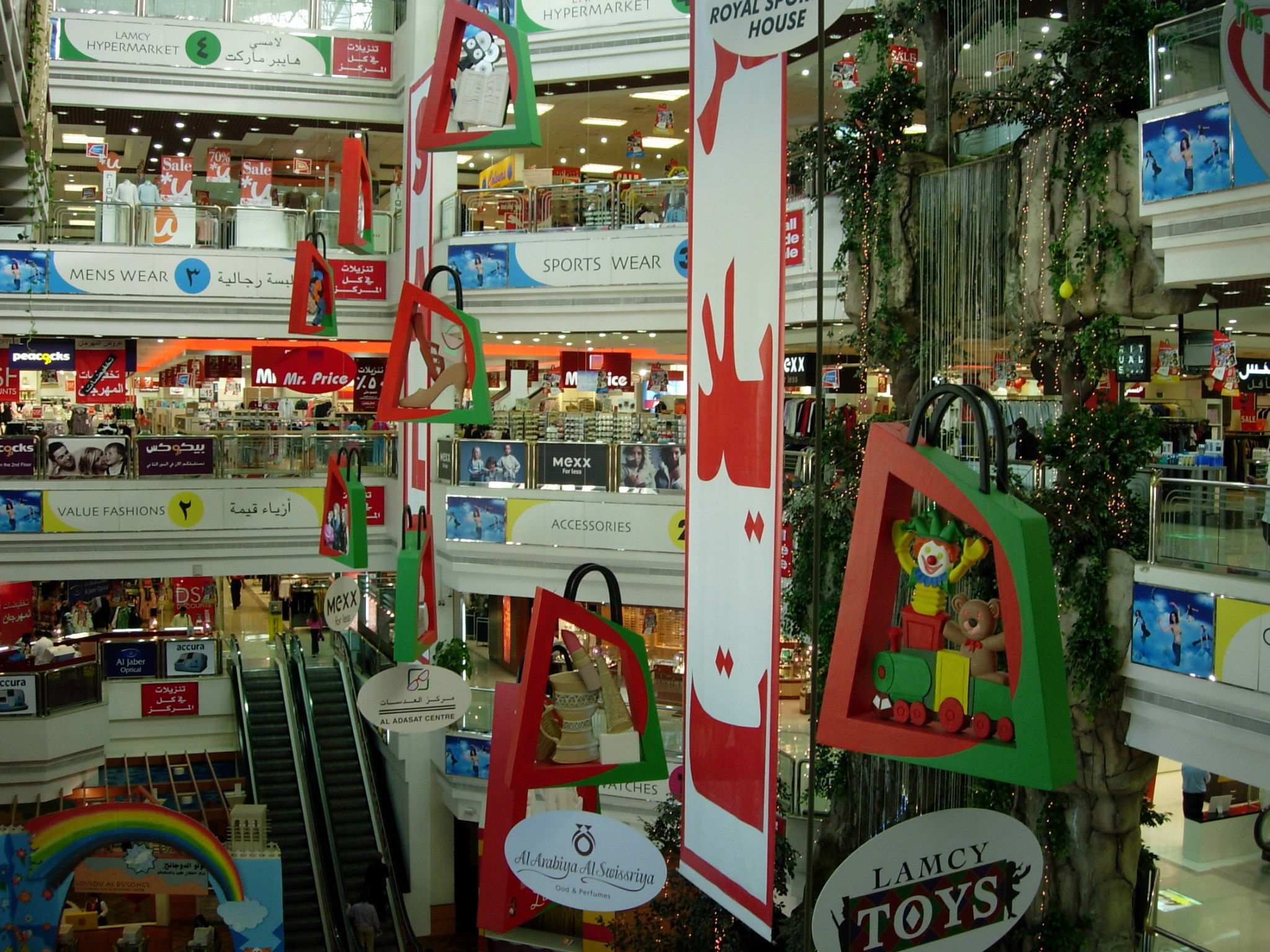 Dubai Shopping Festival is the biggest shopping festival in the world. Enjoy Quantity and quality both with best offers at DSF coming in Dec 26th 2016.